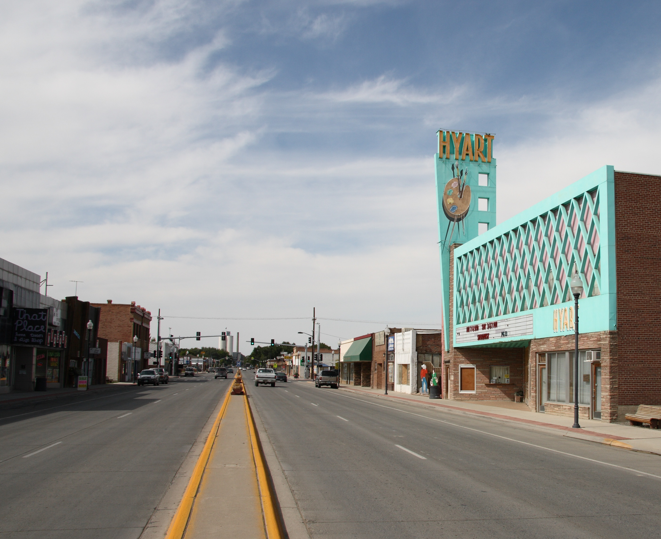 Main Street, Lovell, Wyoming with Hyart Theater